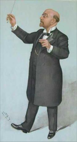 Caricature of Alexander Campbell Mackenzie (1847-1935). Caption read "RAM".